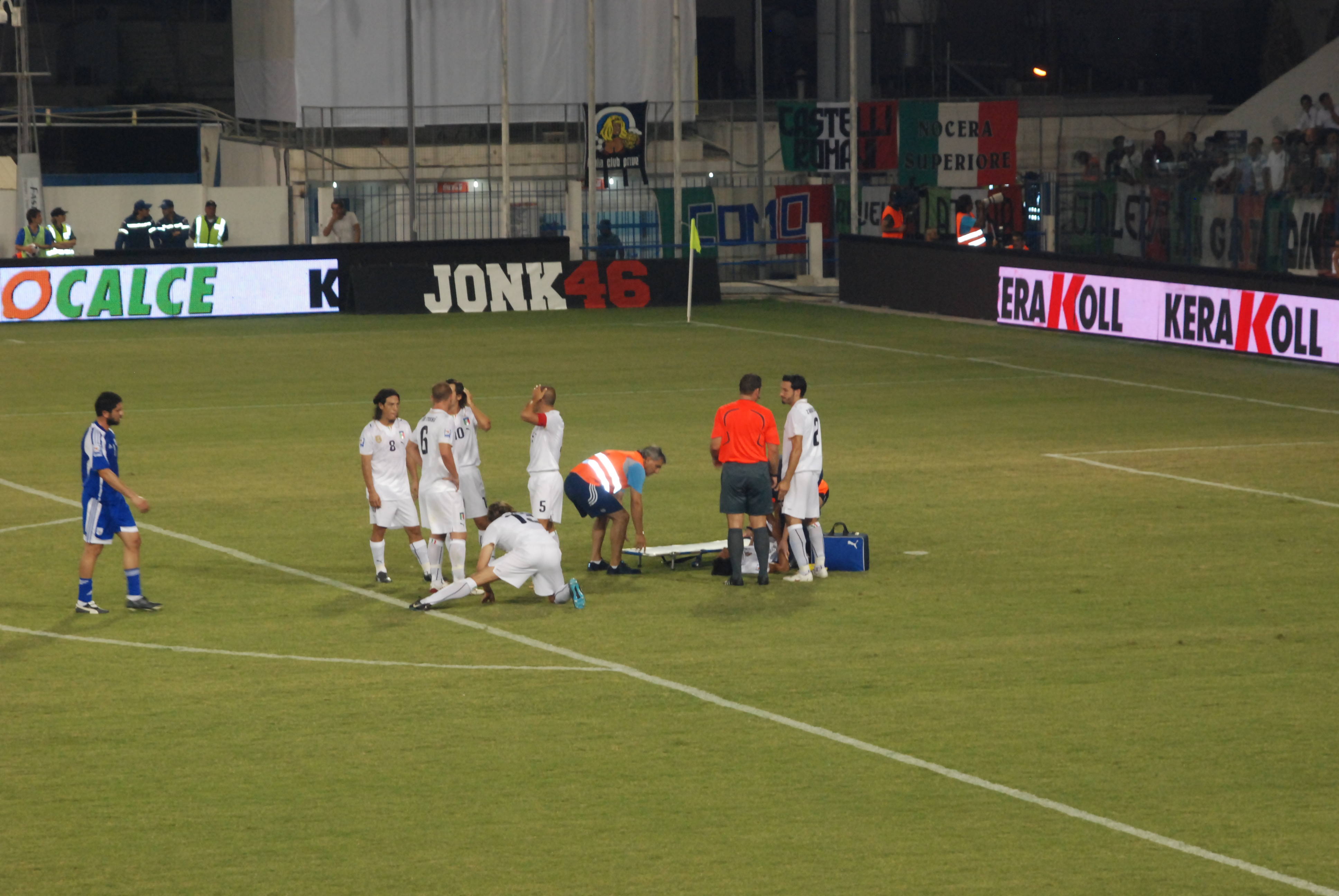 Cyprus - Italy.